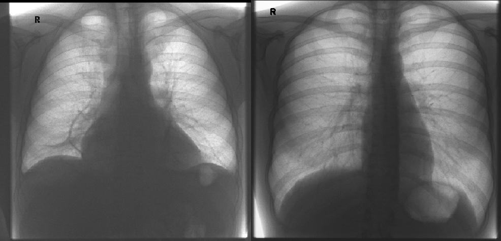 Human heart with dilated cardiomyopathy (left) and normal heart (right), shown in chest x-ray